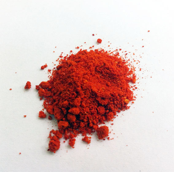 vermilion or cinnabar (cinober) pigment